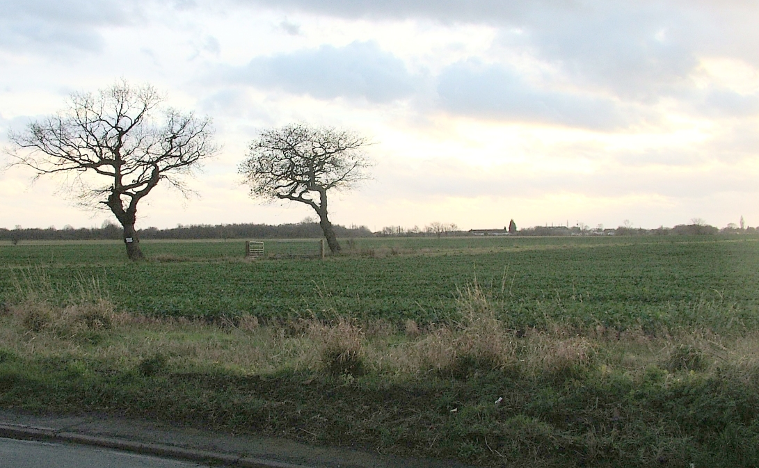 view across Chat Moss towards the village of Glazebrook, showing the typical landscape of drainage ditches instead of hedges to demarcate fields.